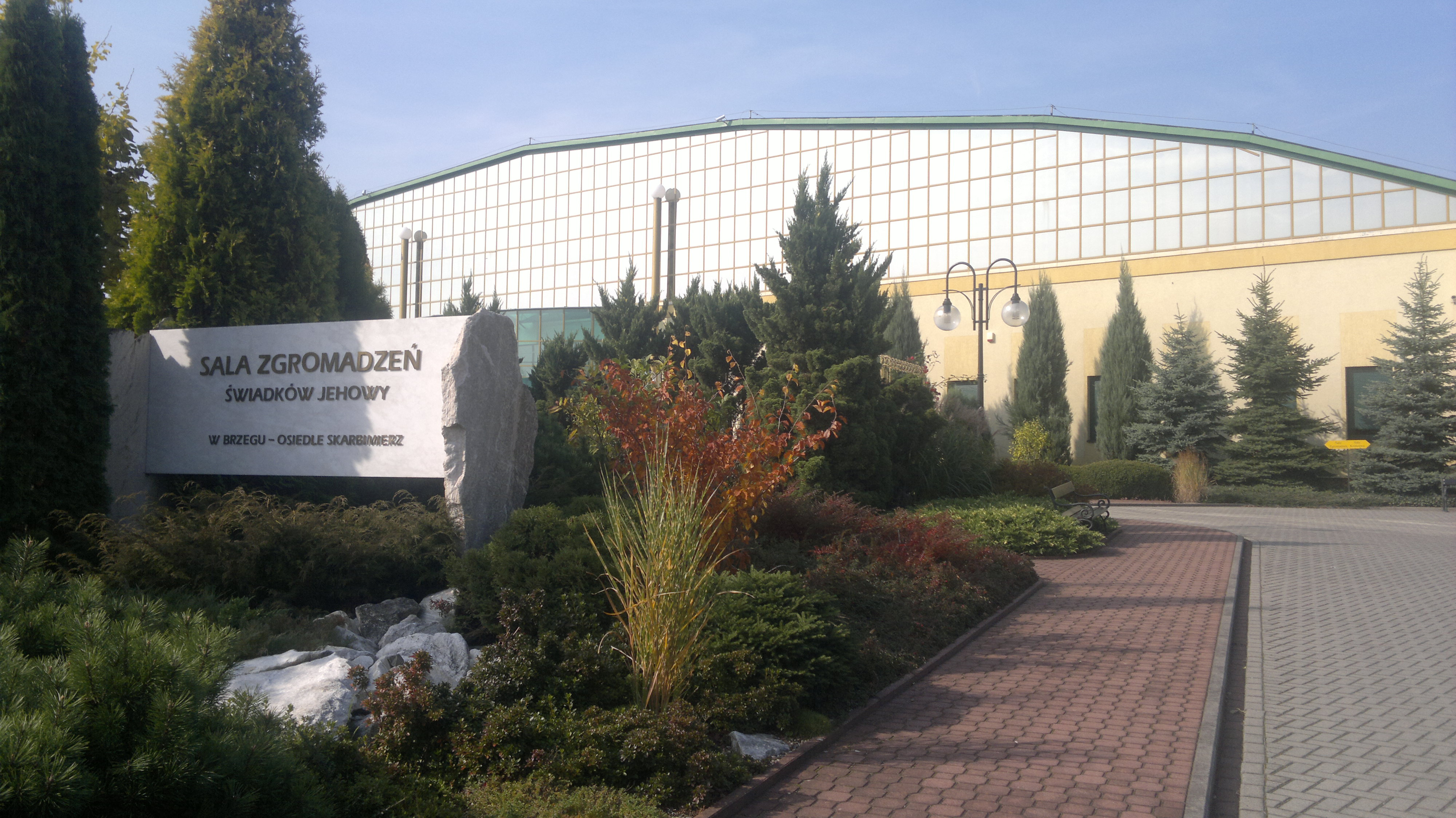 Assembly Hall of Jehovah's Witnesses, Poland, Skarbimierz